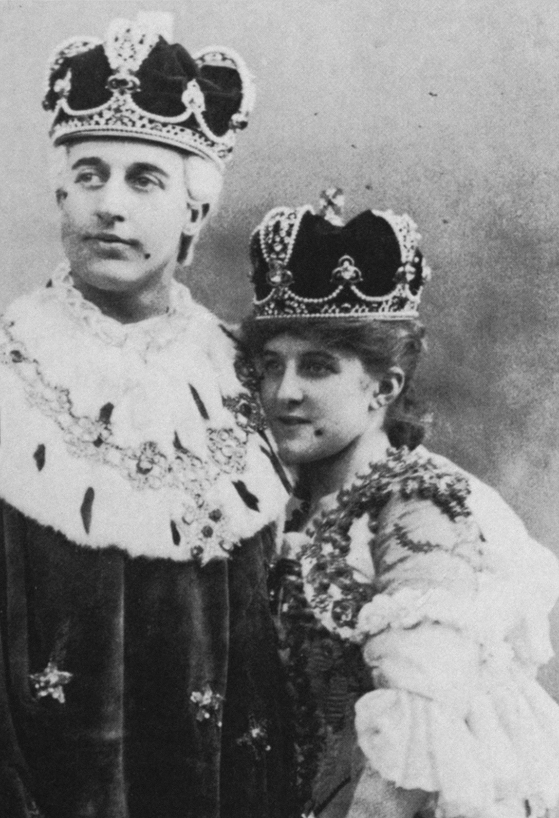 Wallace Brownlow and Decima Moore as Luiz and Casilda in The Gondoliers, 1889